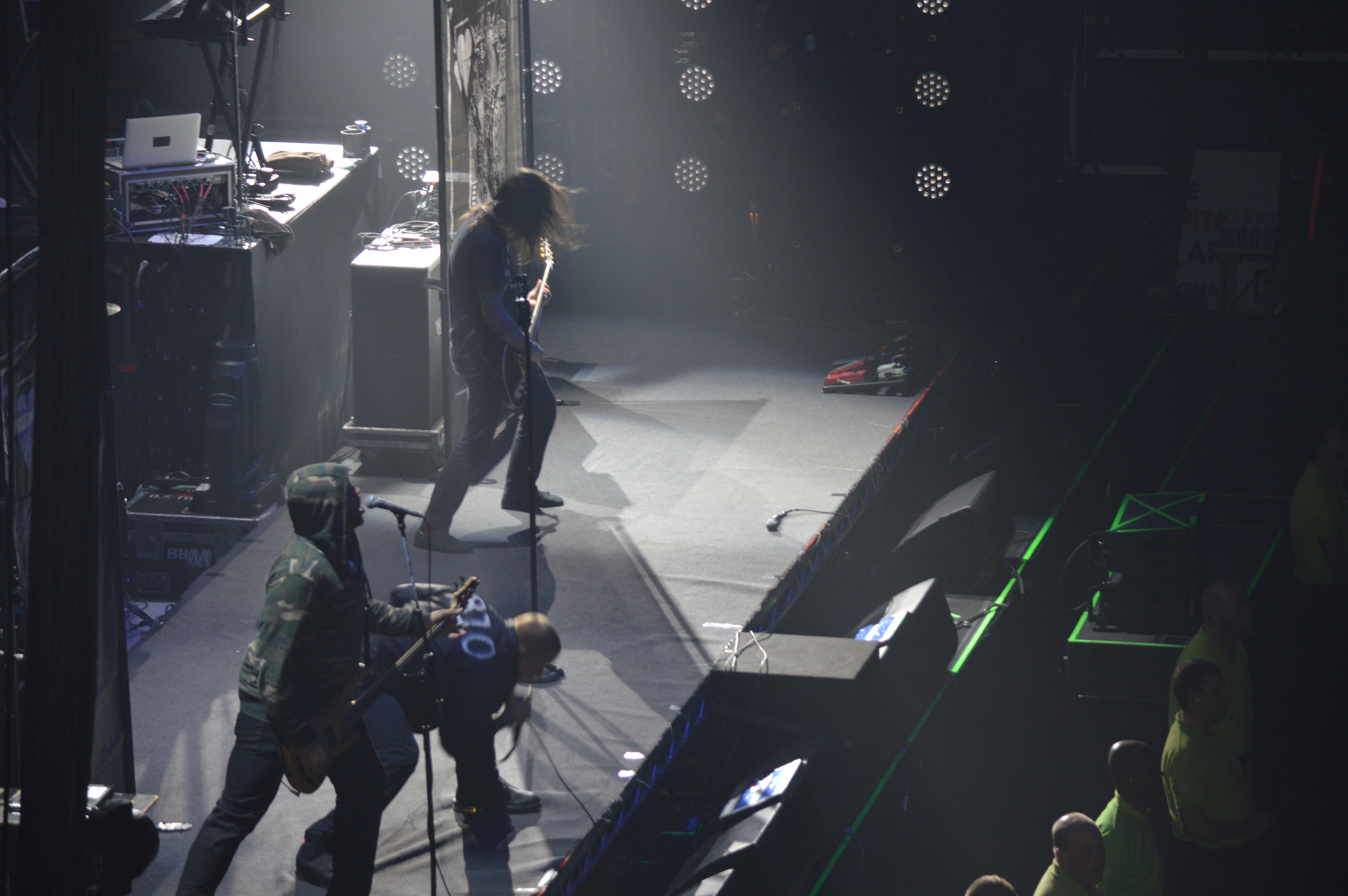 From left to right: Bassist Eugene Gill, Vocalist David Gunn, Former transgendered guitar player Andrew Beal